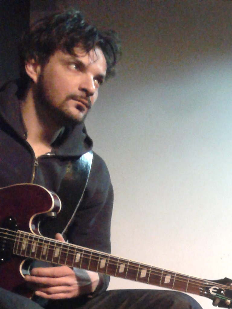 János Bujdosó performs an intro (on the International Romani Day, 2015)